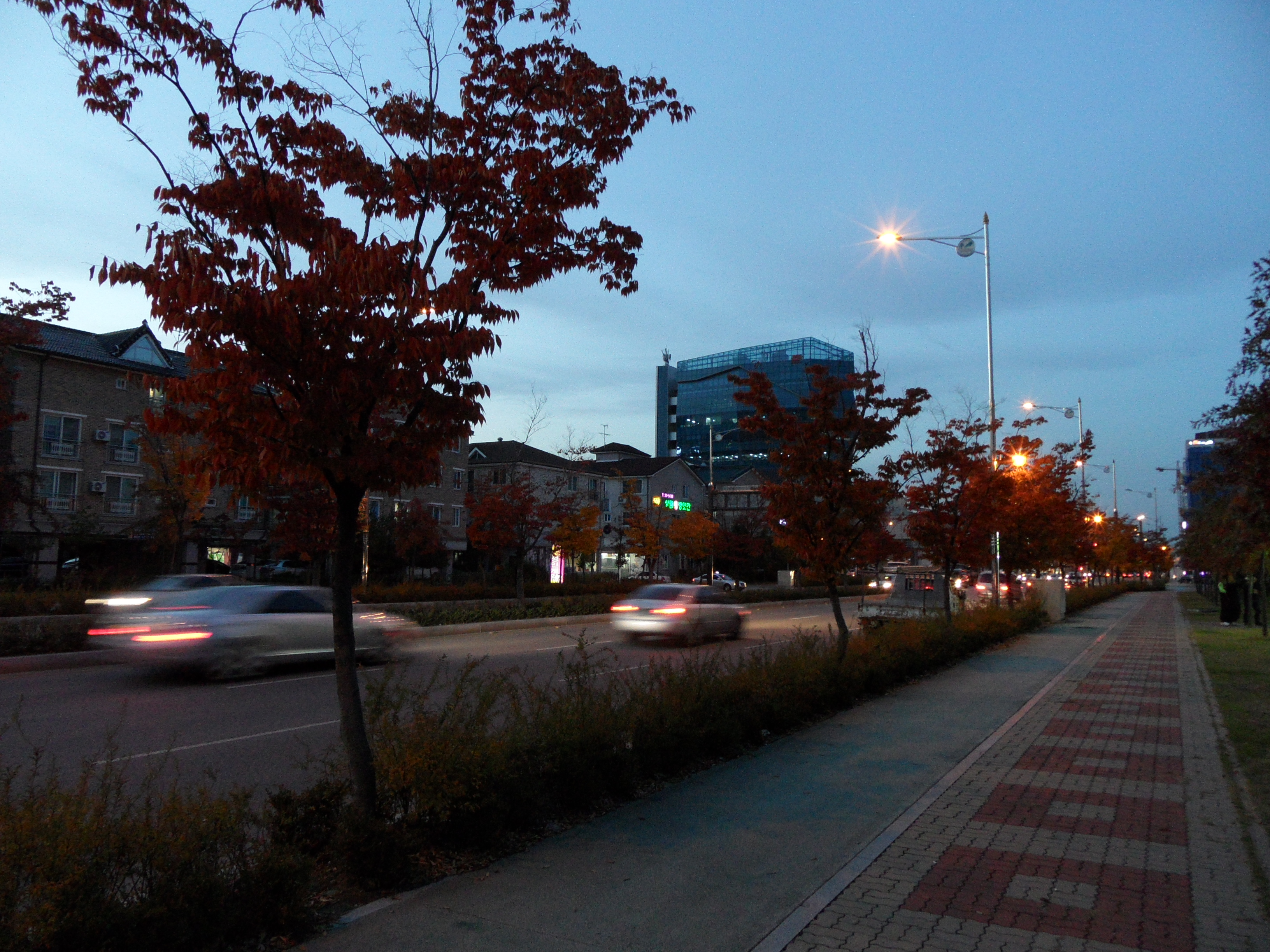 This is an example of an integrated bike lane (in green) as a part of the sidewalk structure as they exist in South Korea.